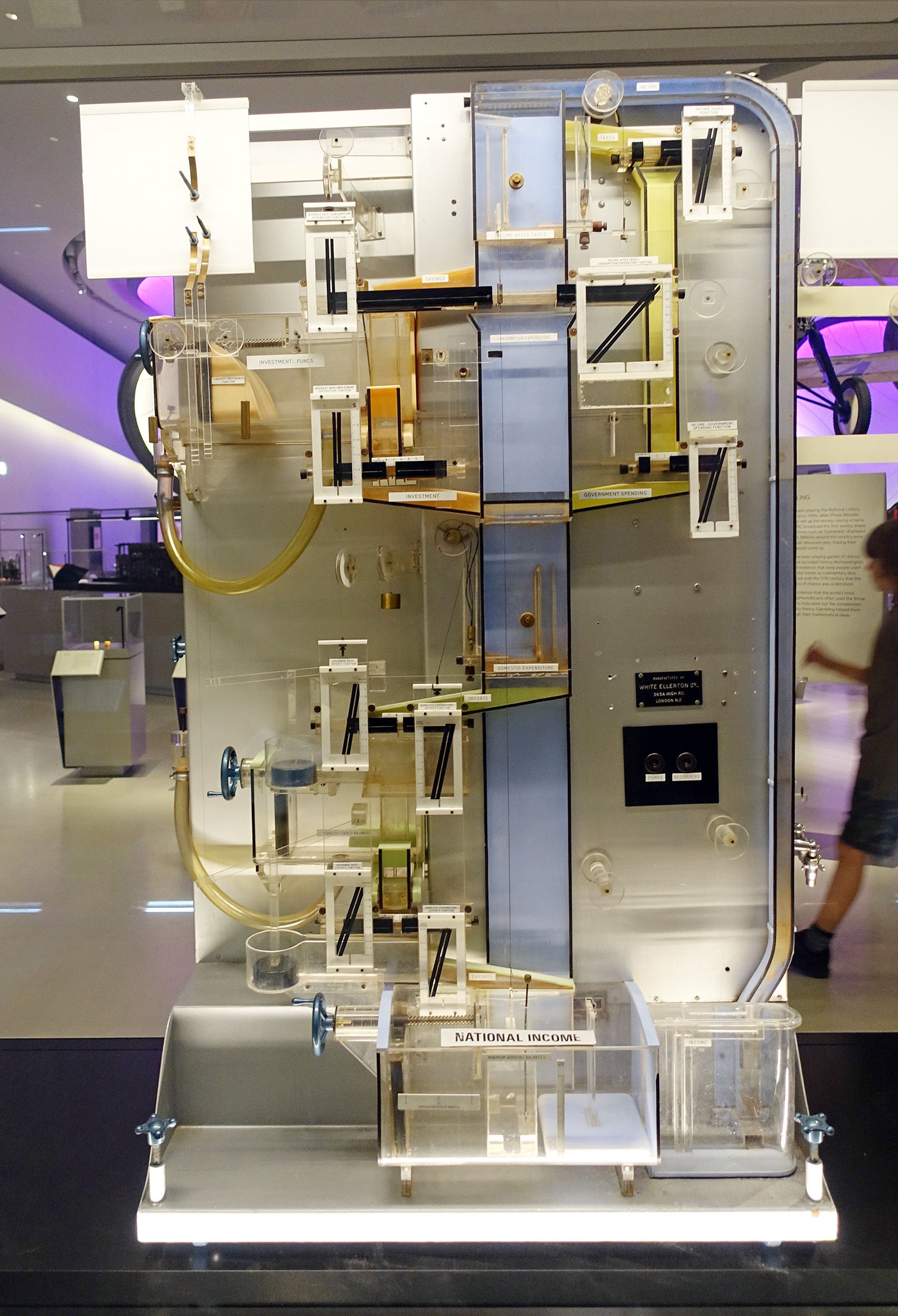 MONIAC - a machine using water to model money/economic processes. Science Museum, London.